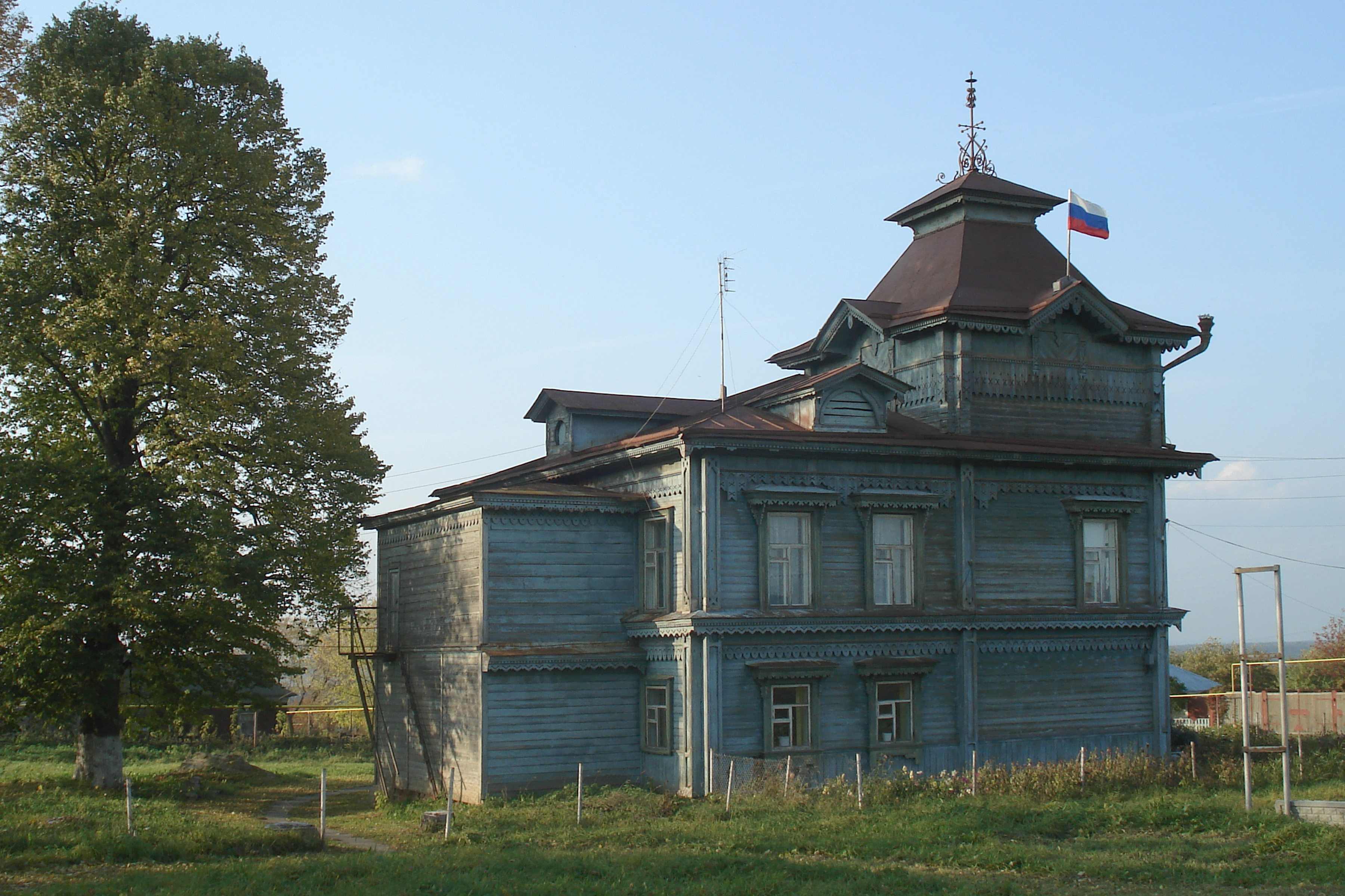 Rural Administration in the village of Chulkovo. Nizhegorodskaya oblast. Russia.